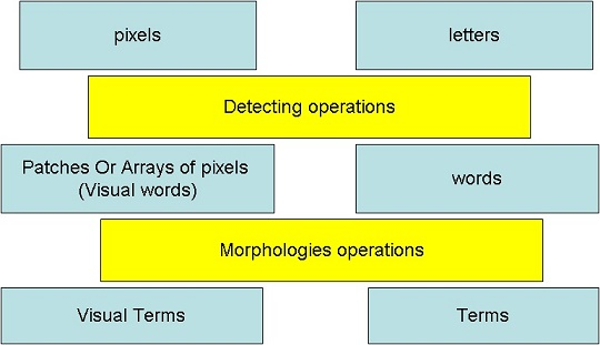 Analogy between text and image, or understanding image as a text for Image Retrieval system in Computer vision